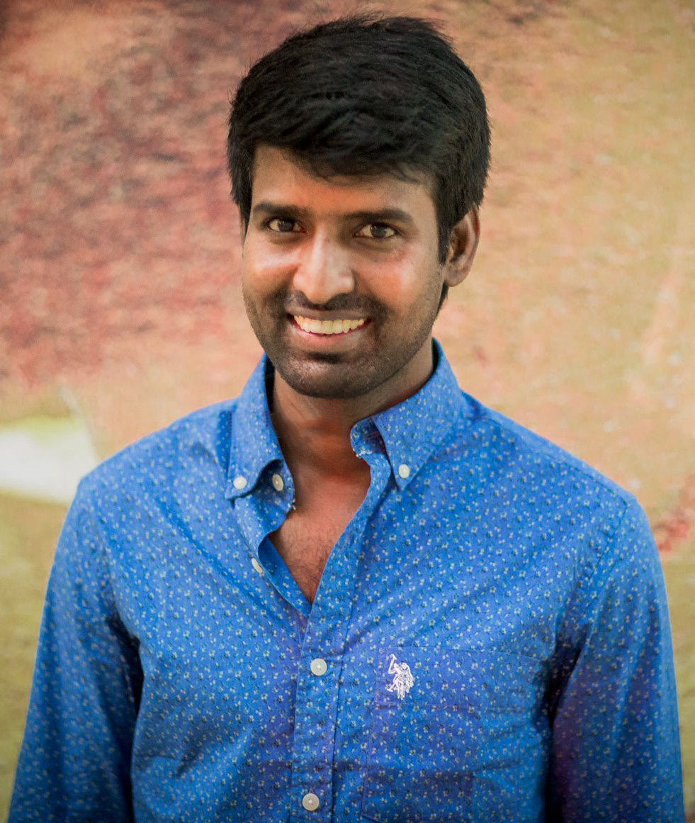 Soori at Marudhu Press Meet